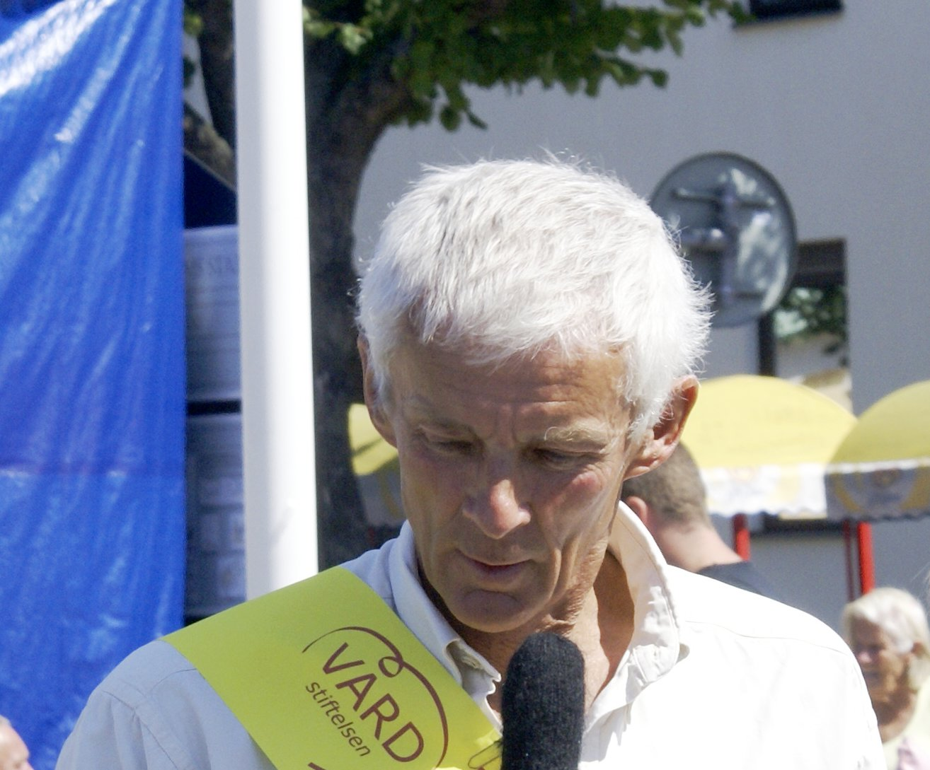 Ulf Wickbom during event by "Vårdstiftelsen" in Borgholm